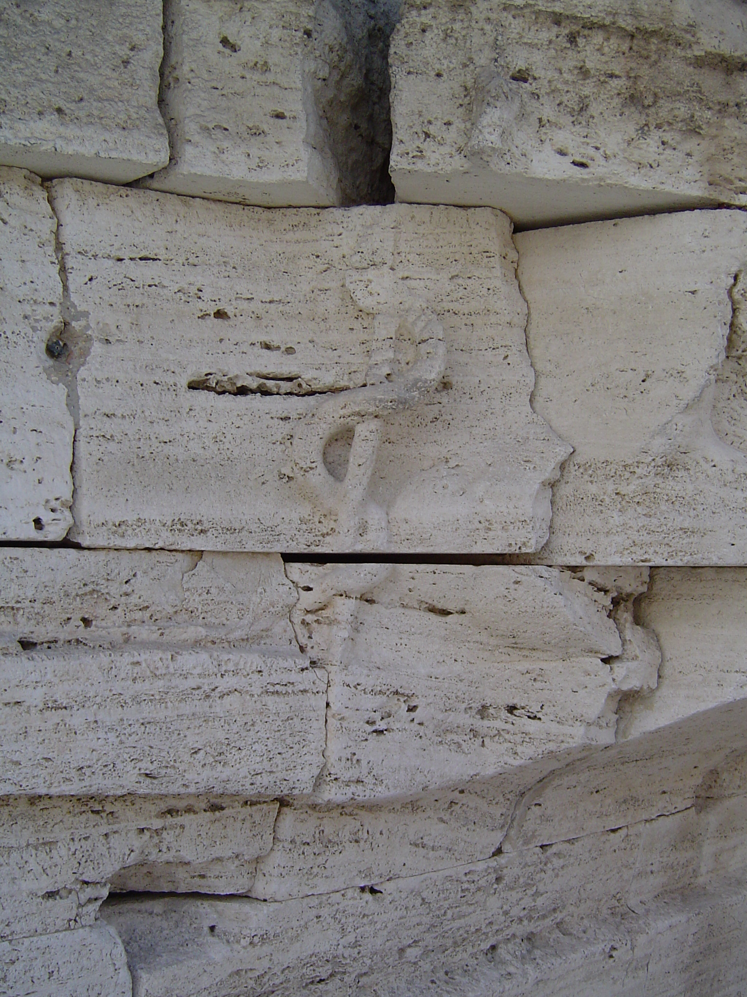 Carving of the snake, which is the symbol of the Greek Asclepius, on the Roman Tiber Island.